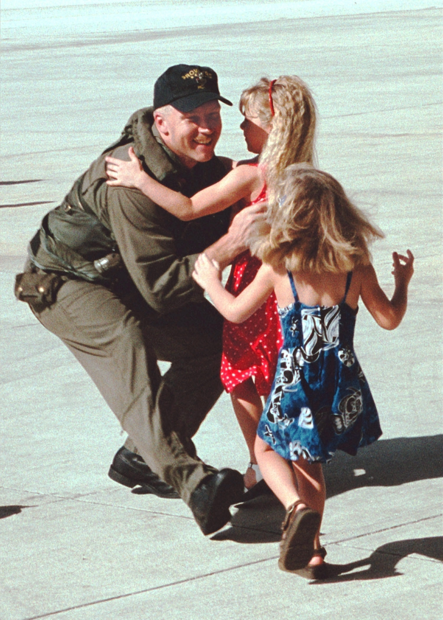 000629-N-5686B-001 YIGO, Guam (June 29, 2000) -- Aviation Electronics Technician1st class Sam Wood rushes to embrace his daughters as he returns from a five-month deployment to the Persian Gulf aboard the combat stores ship USNS Niagra Falls. Wood is assigned to Helicopter Combat Support Squadron Five (HS-5), Detatchment 2. U.S. Navy Photo by Photographer's Mate 3rd Class Crystal M. Brooks. (RELEASED)